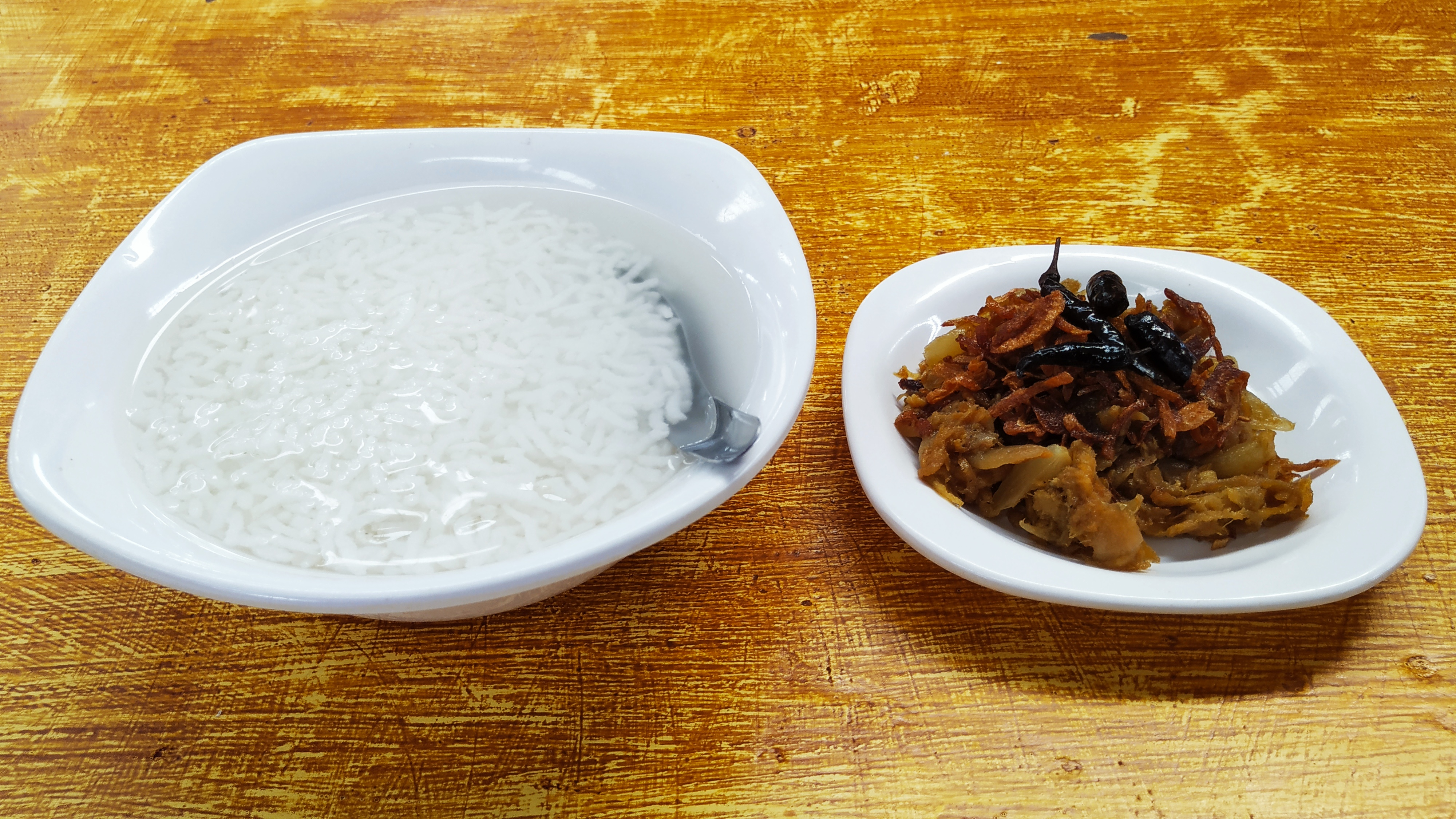 Mon Traditional Thingyan Rice with fried and mashed dried fish မြန်မာဘာသာ: ငါးခြောက်ထောင်းကြော်နှင့် မွန်ရိုးရာ သင်္ကြန်ထမင်း